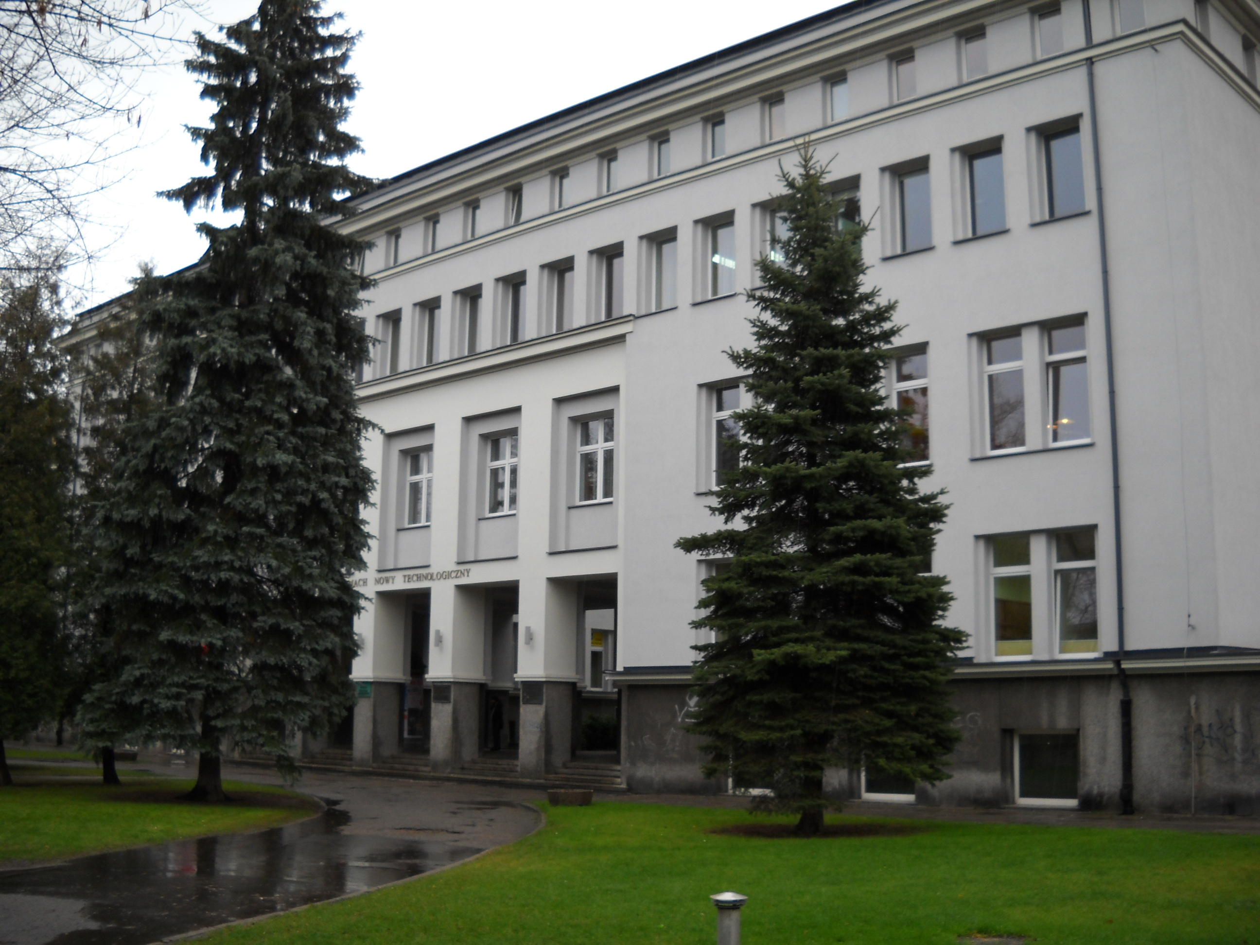 Faculty of Management Warsaw University of Technology